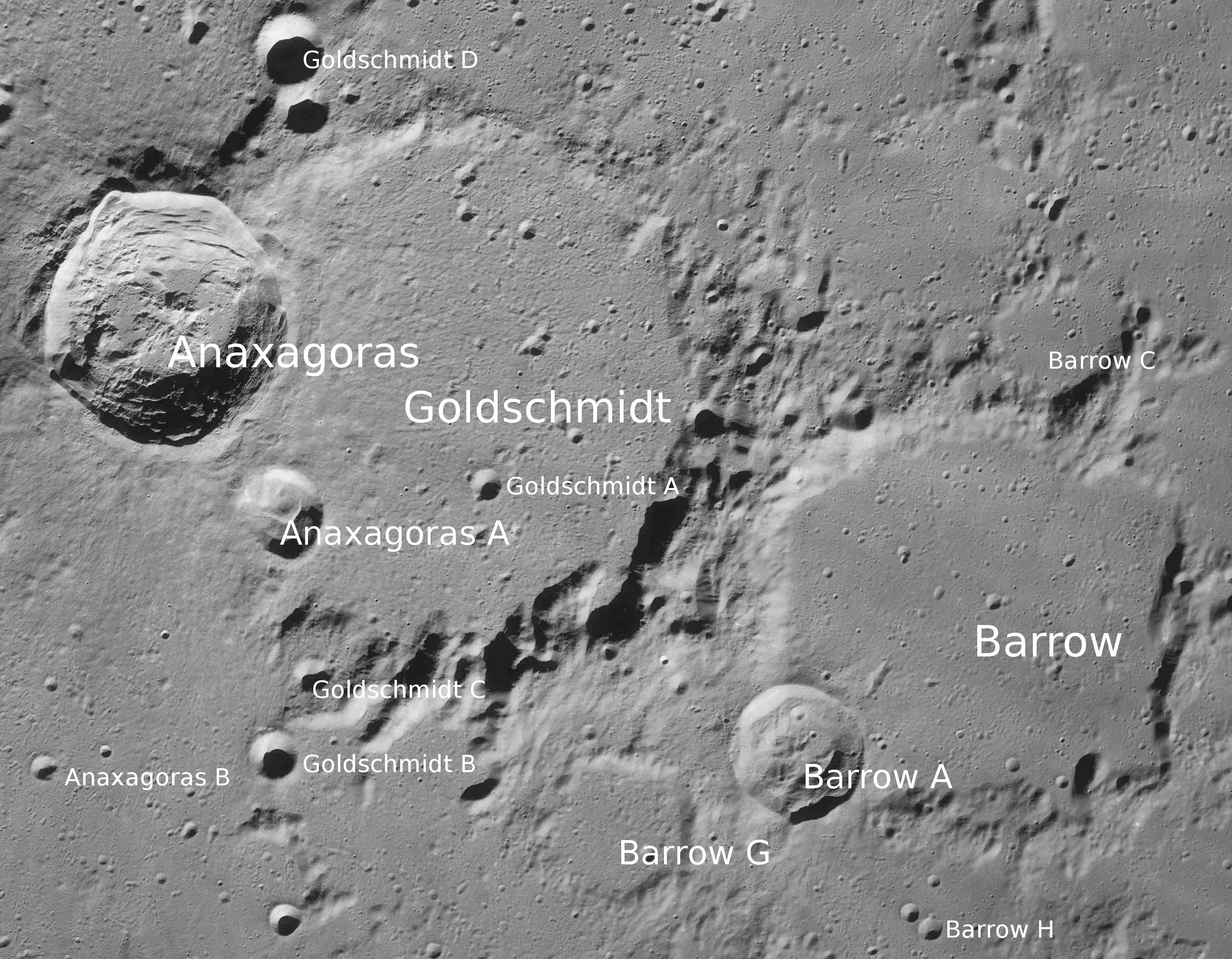 Moon craters Anaxagoras, Goldschmidt and Barrow with satellite features (north at top; detail of LRO - WAC north pole mosaic)